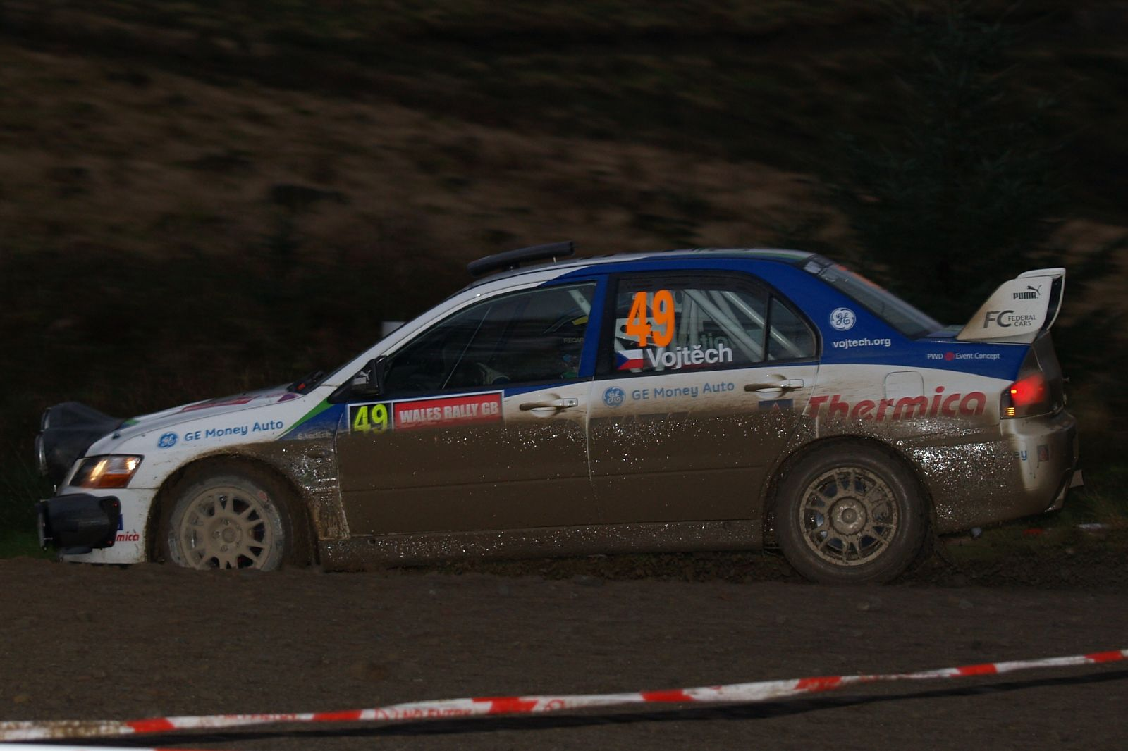 Štěpán Vojtěch driving his Mitsubishi Lancer Evolution during 2007 Wales Rally GB.